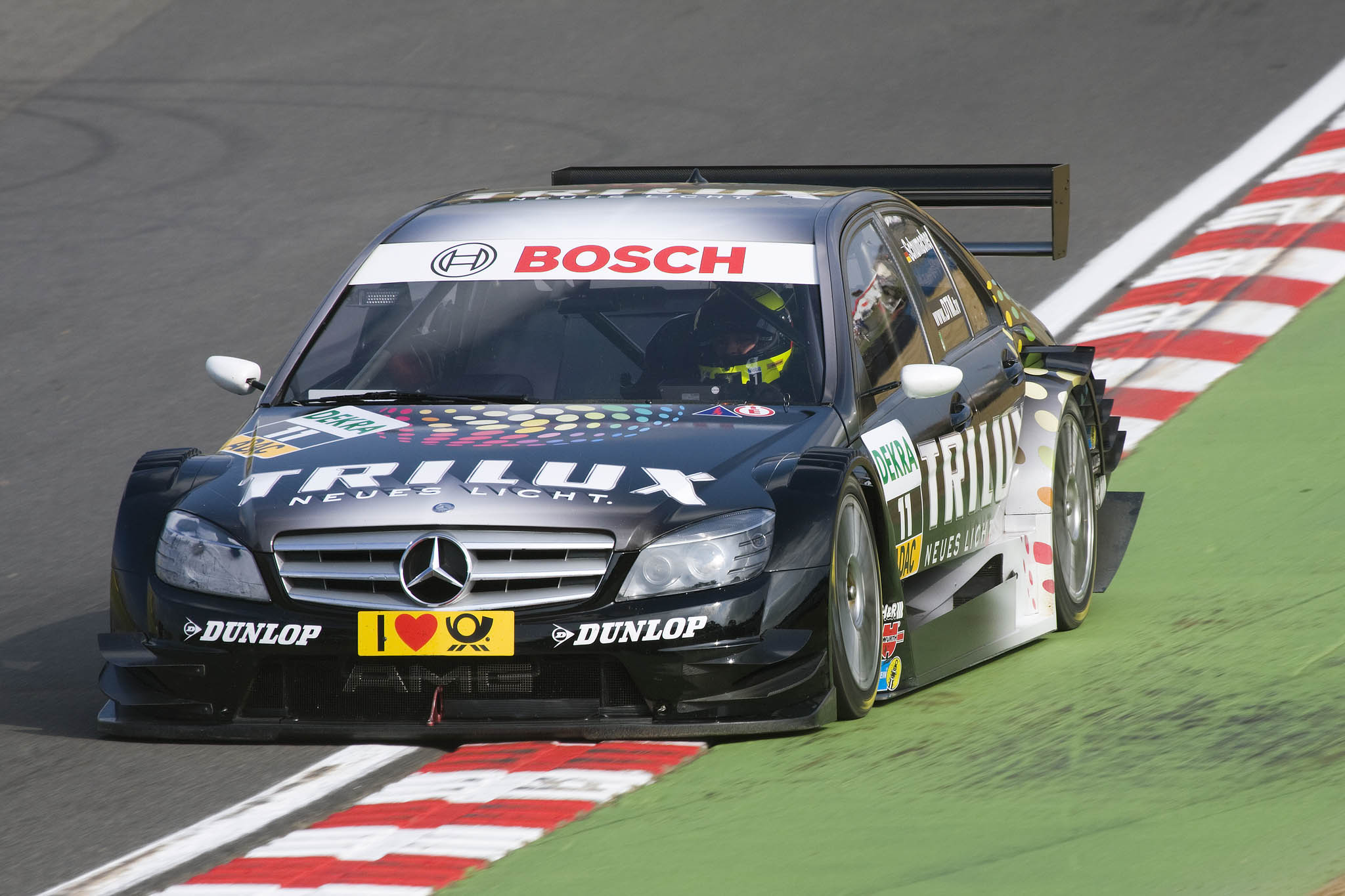 Ralf Schumacher at Brands Hatch (2008)